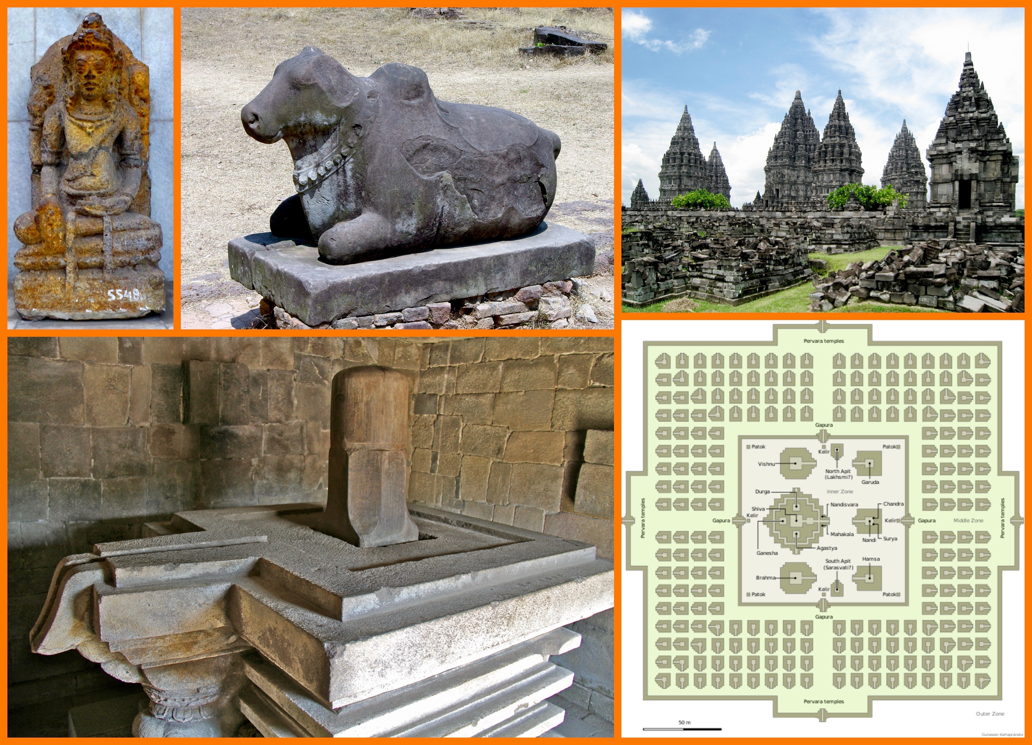 A derivative work on the following images on ancient and medieval Shiva / Siwa / Siva / Shaivism tradition in southeast Asia, available on wikimedia: 071 Siva Mahadeva, Dieng, Central Java, 8-9th c (23194230630).jpg Nandi Preah Ko Cambodia0573.jpg Prambanan Complex 1.jpg Candi Sambisari, Hindu Temple of Java Indonesia 2013 e.jpg Prambanan Temple Compound Map en.svg